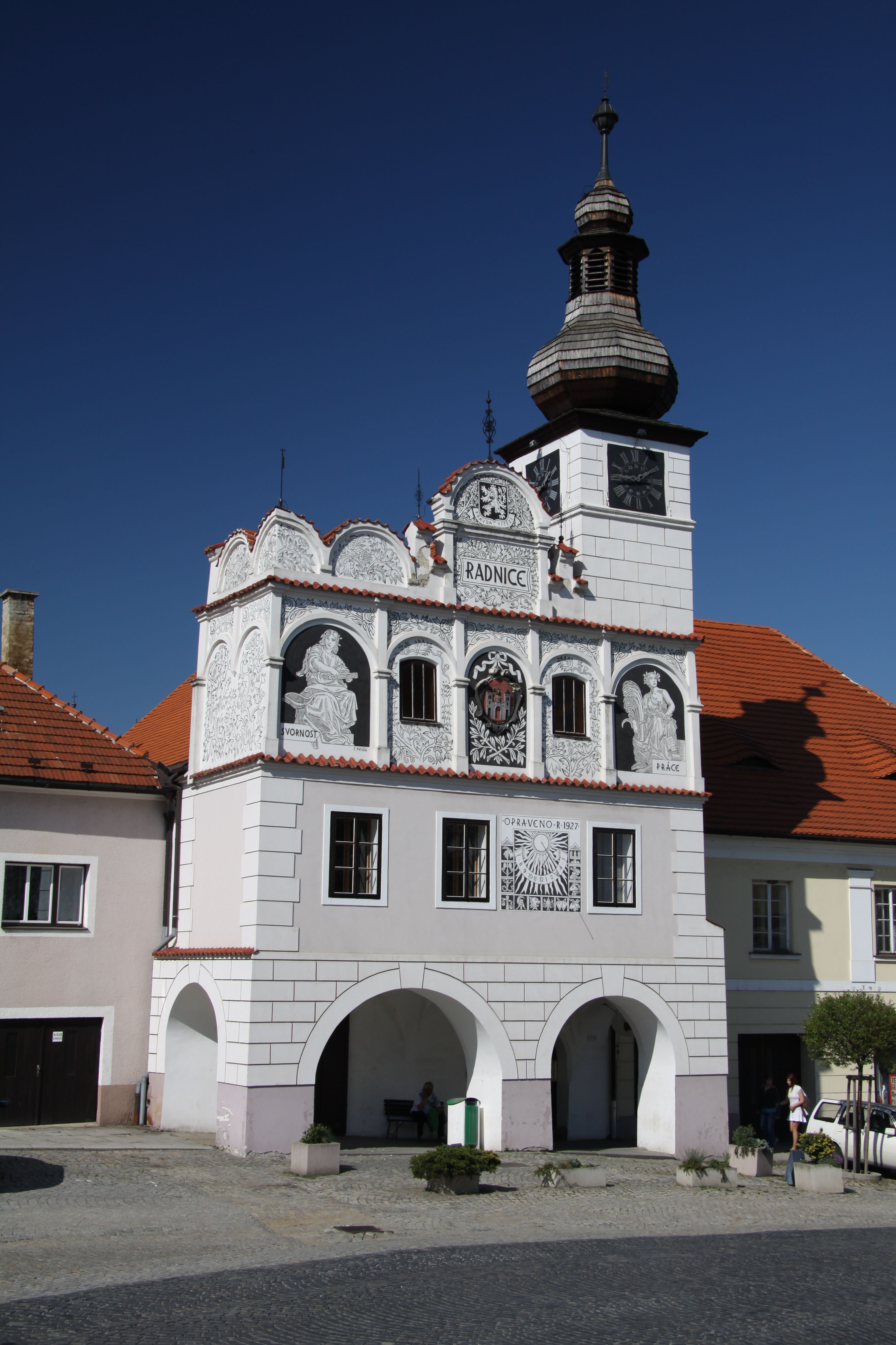 Town hall in Volyně in Strakonice District, Czech Republic